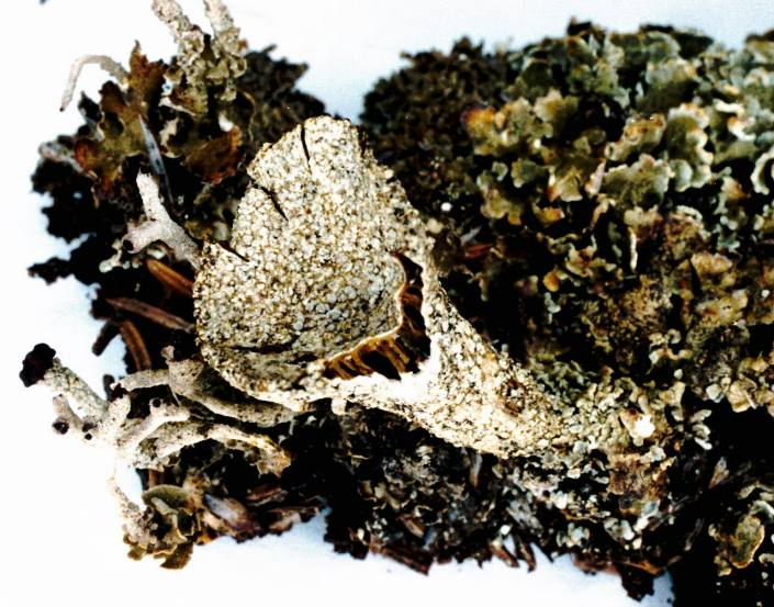 Cladonia pyxidata (L.) Hoffm., 1796 Photograph of a herbarium specimen. Cladonia pyxidata was growing on soil on a rock along Trail 517 about 1 mile from Forest Service Road 19, in the Dolly Sods Wilderness Area of the Monongahela National Forest, Randolph County, West Virginia, USA. Collected and identified by E.C. Uebel (No. U-45, 19 May 2001)